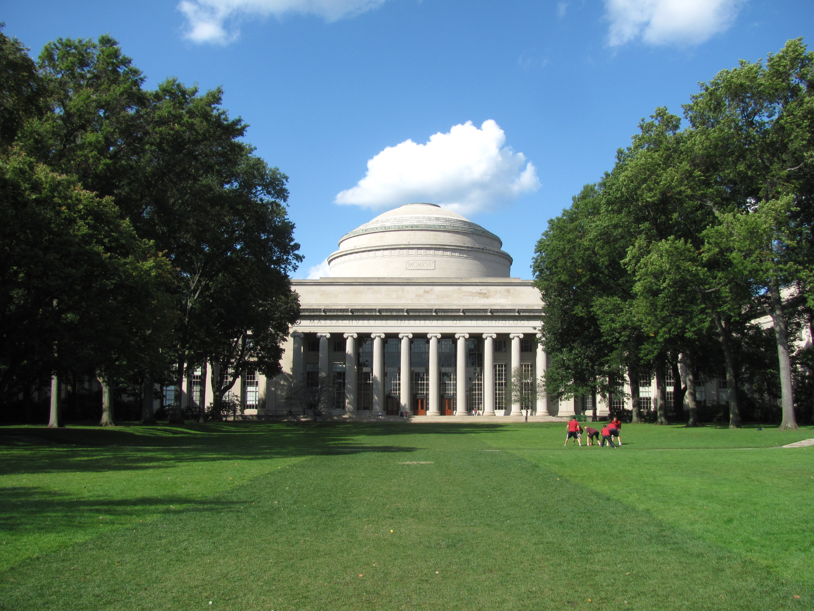 Great Dome, Massachusetts Institute of Technology, Cambridge Massachusetts